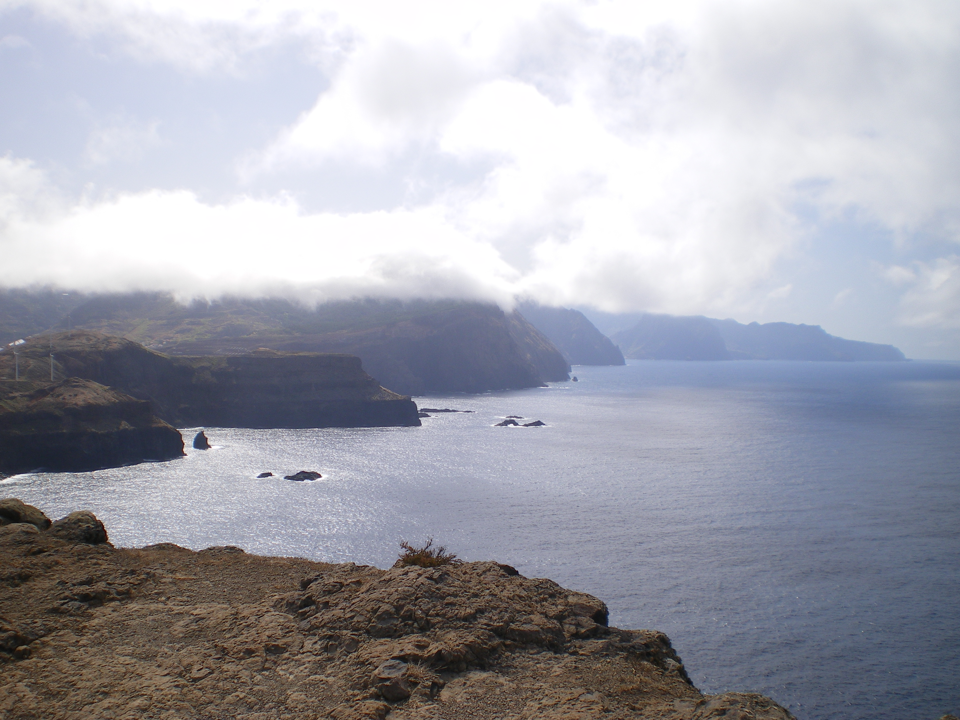 North coast of Madeira, view from the East